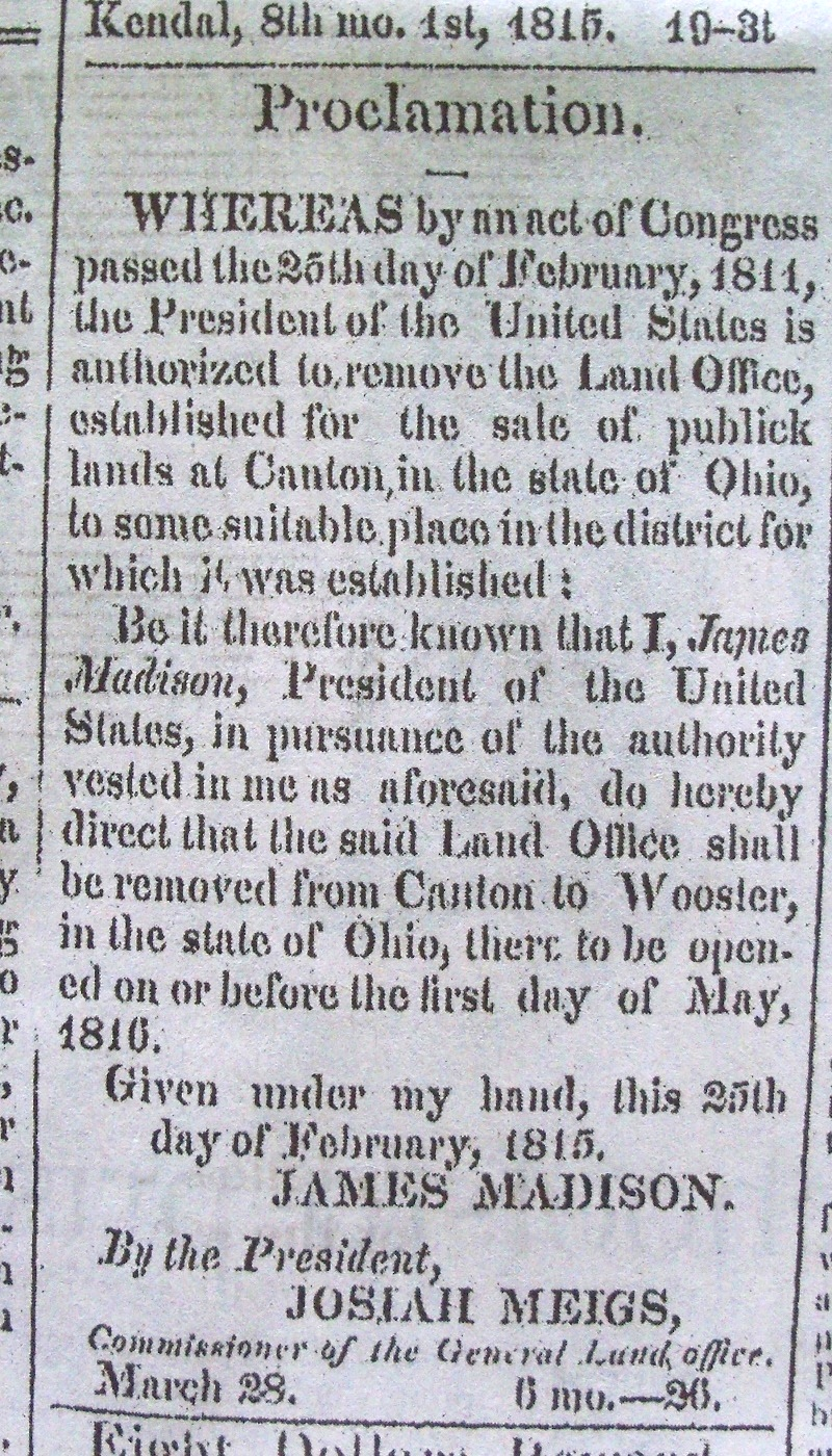 published article about move of land office from Canton to Wooster.